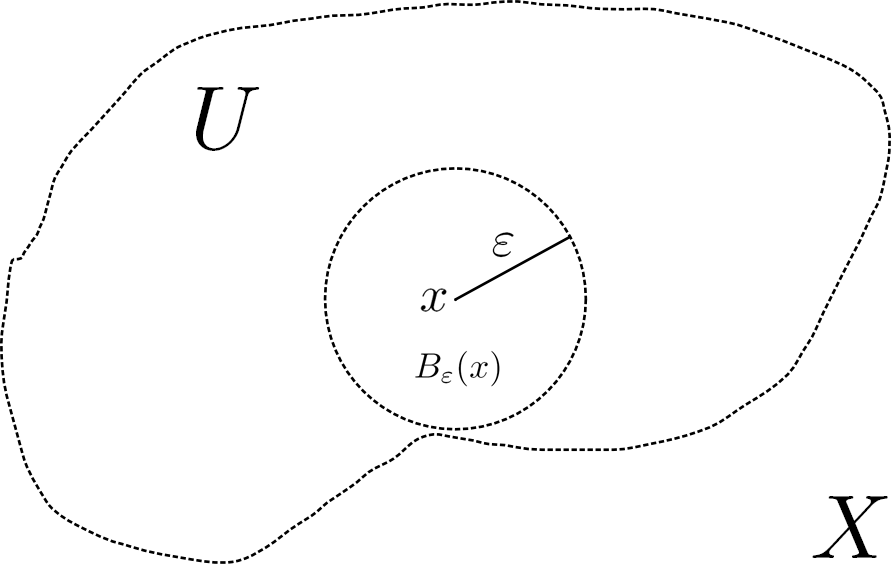 Illustration of the topology concept open set